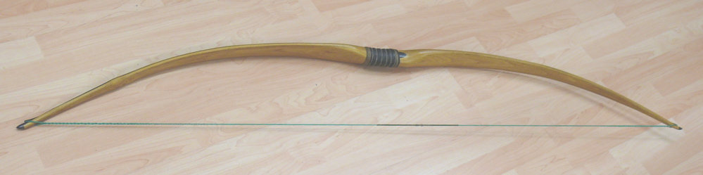 promitive bow (weapon)